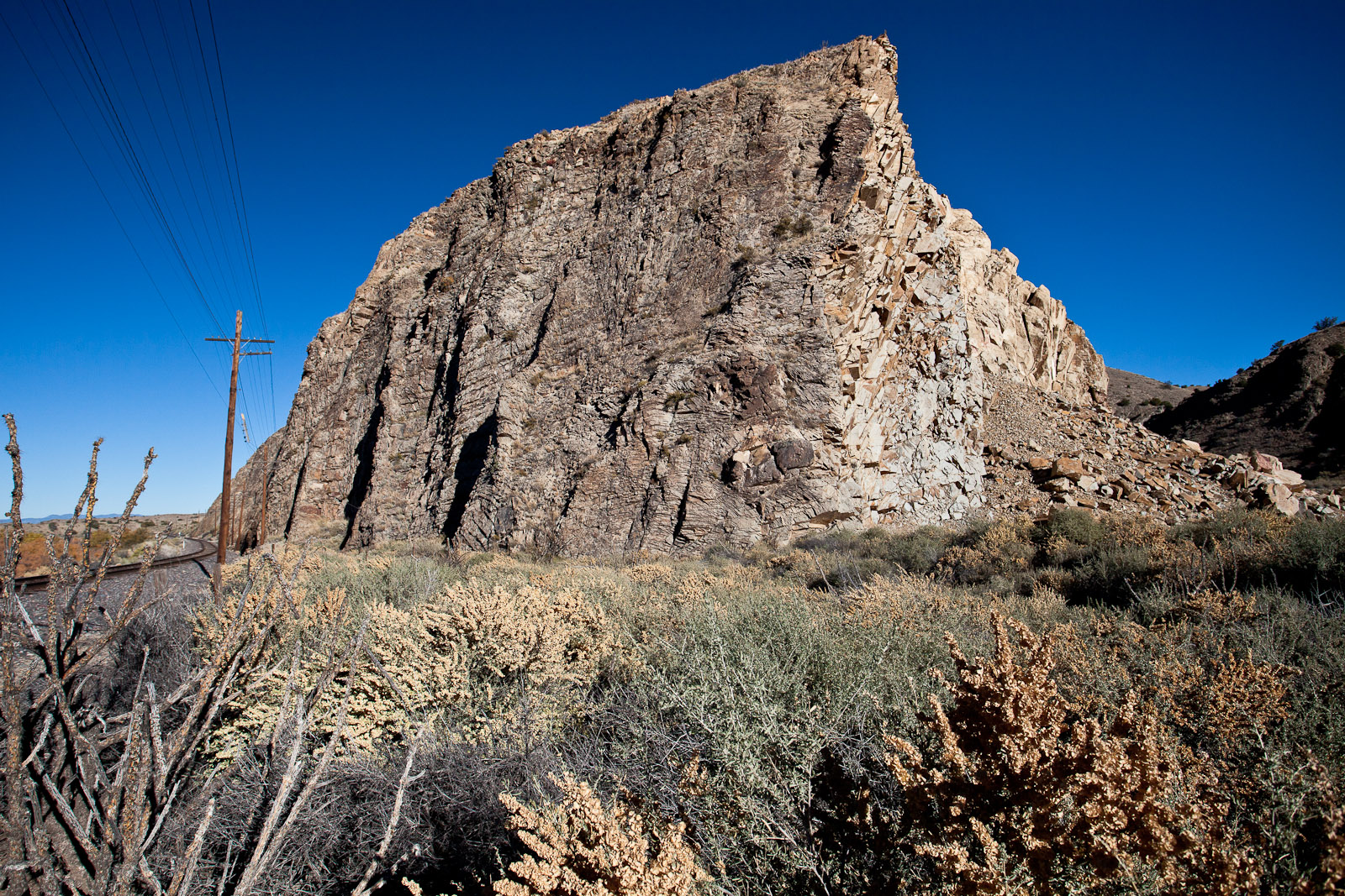 Devil's Throne, a sill of andesite porphyry in the Cerrillos Hills of New Mexico, USA. Although now near vertical, the andesite intrusion is concordant (parallel) with the layers of sedimentary rock into which it was intruded, and both have been tilted later. (Reference: Maynard, S. R. et al. (2001) Preliminary Geologic map of the Madrid 7.5-Minute Quadrangle, Santa Fe and Sandoval Counties, Central New Mexico, New Mexico Bureau of Mines and Mineral Resources Open-File Report DM-40, page 17. Retrieved 2014-02-06.)